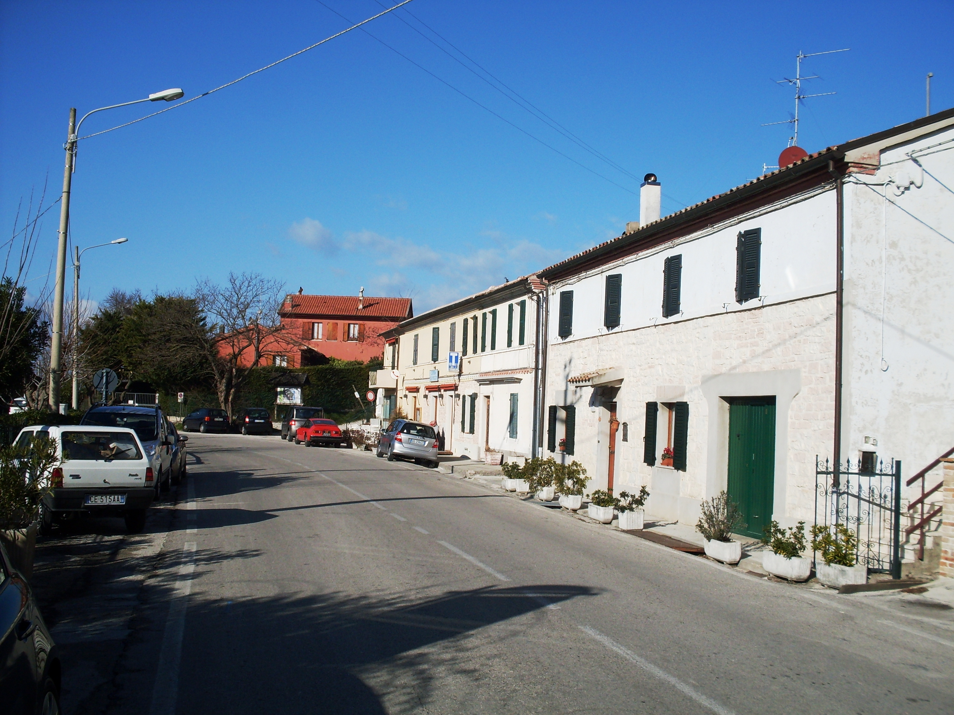 Italy Ancona - Poggio suburb